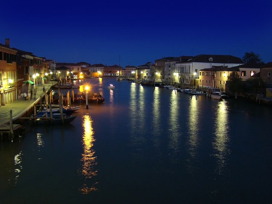 Murano, Veneto, Italy. Canal Grande.